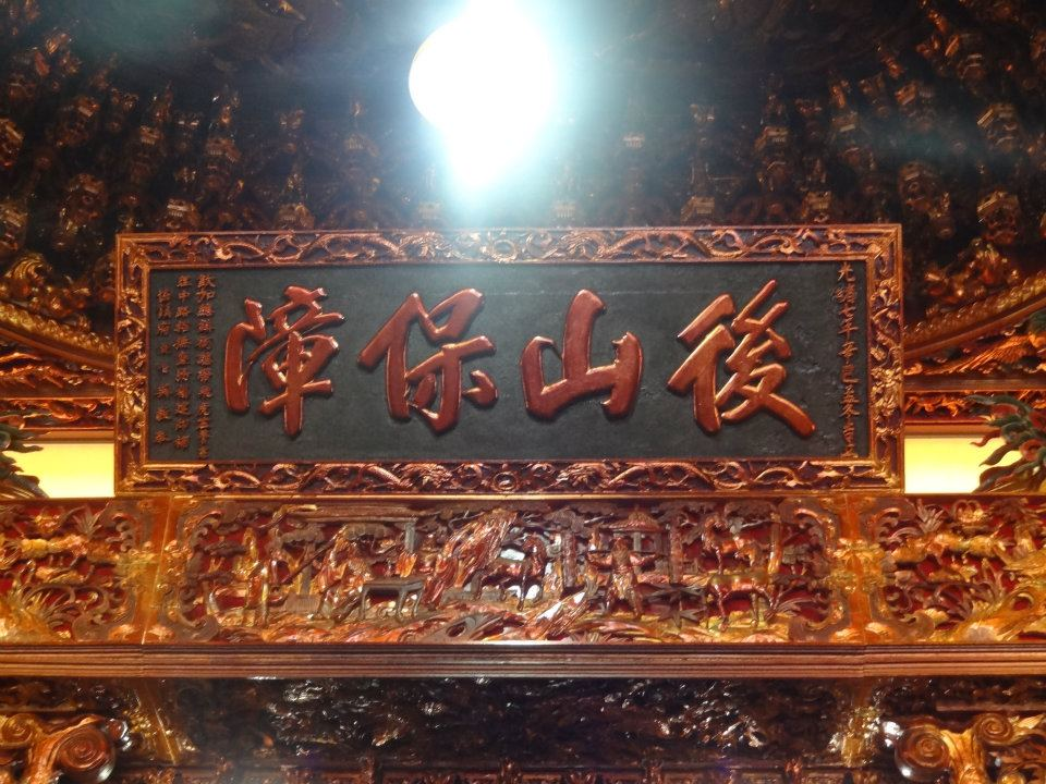 The words "Hou Shan Bao Zhang" written on the horizontal inscribed board. Taken at the Sietian Temple in Yuli Township, Hualian County.